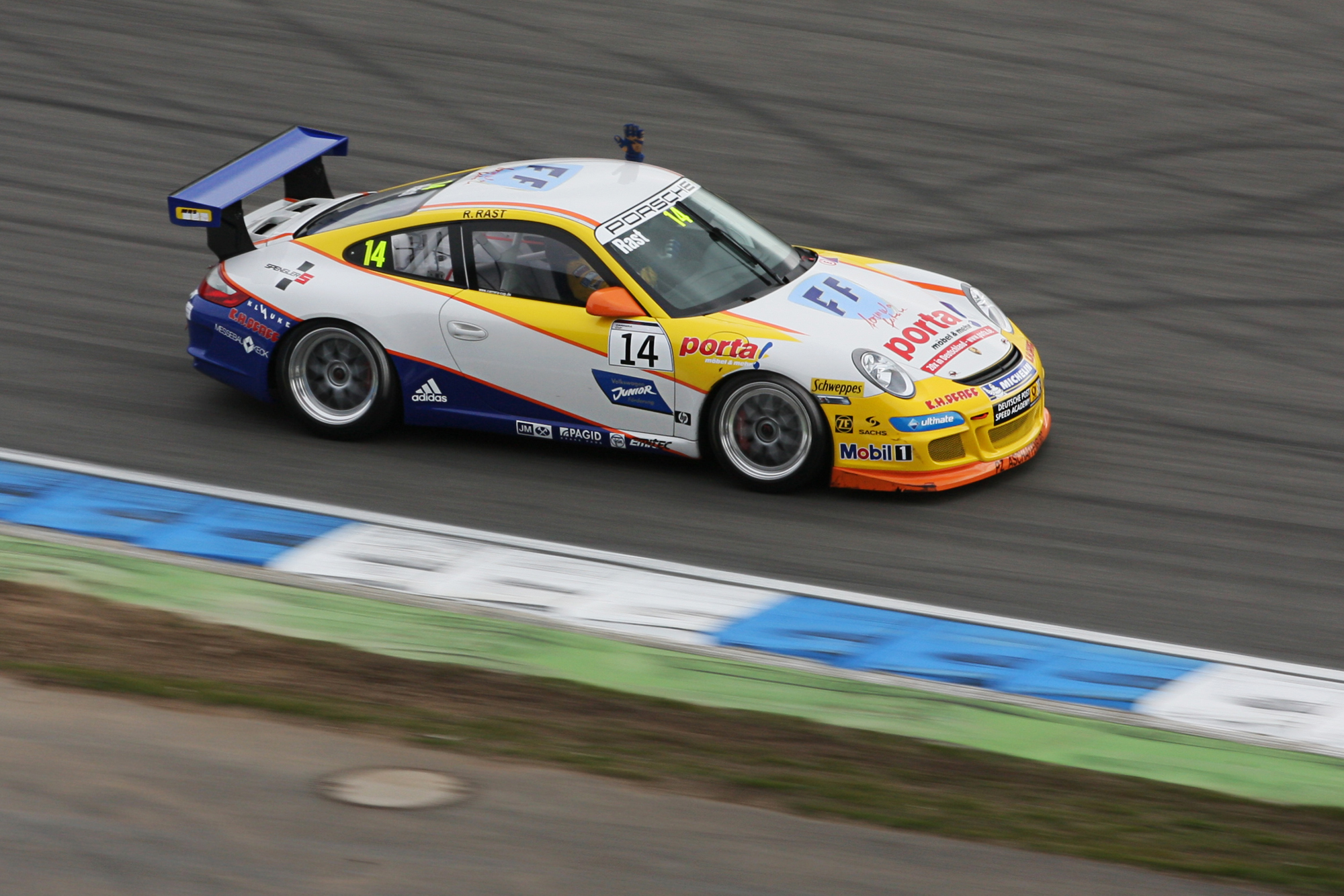 Porsche racing car at Hockenheim Ring, René Rast (driver).